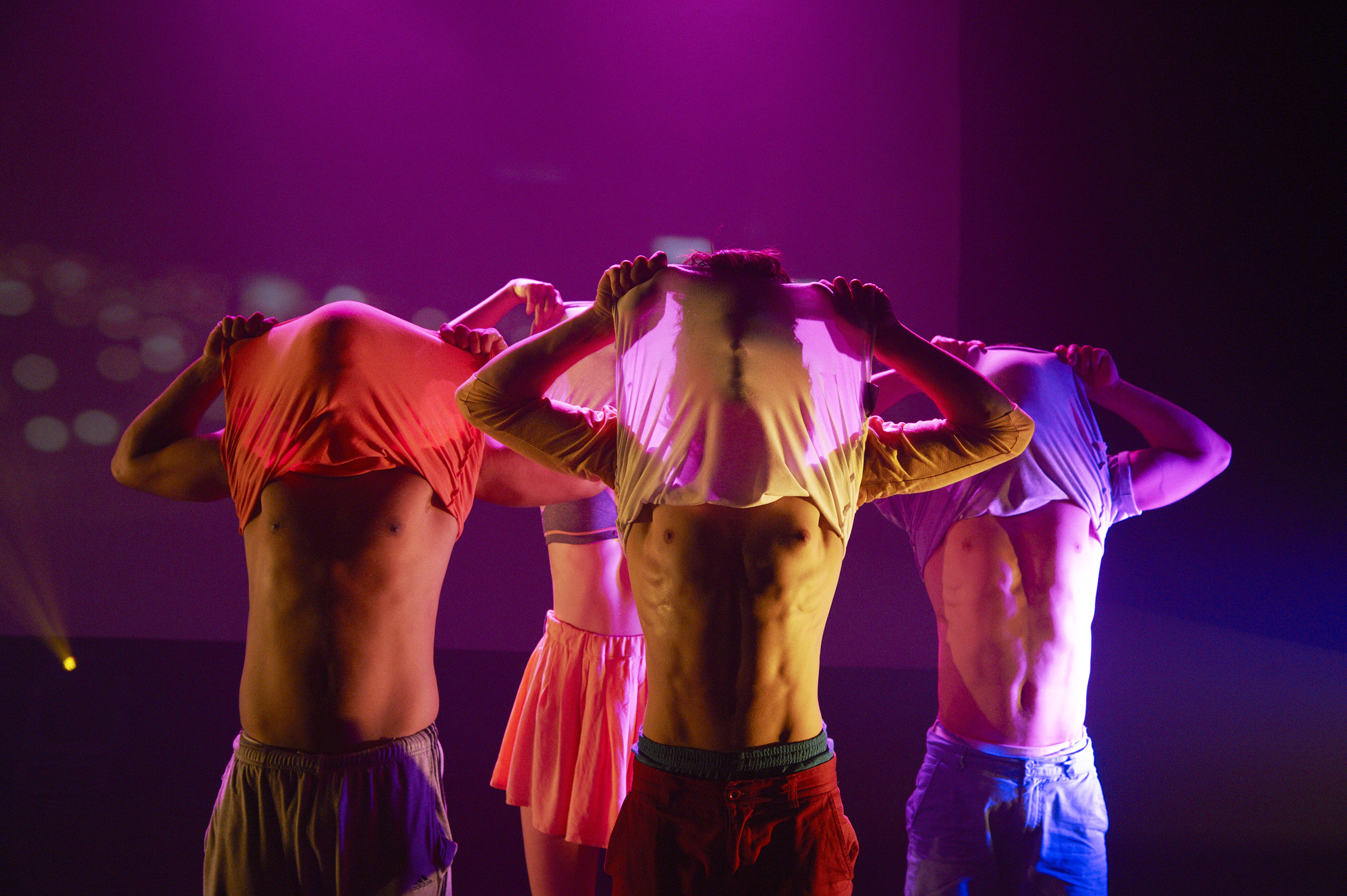 Left to right: Michael Smith, Rikki Bremner, Harrison Elliott andMatthew Tupper